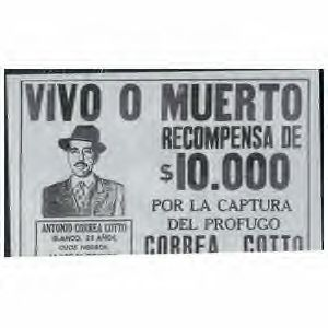 Antonio Correa Cotto. The $10,000 Bounty Reward was posted in the Newspaper "El Imparcial" on May 3, 1952.